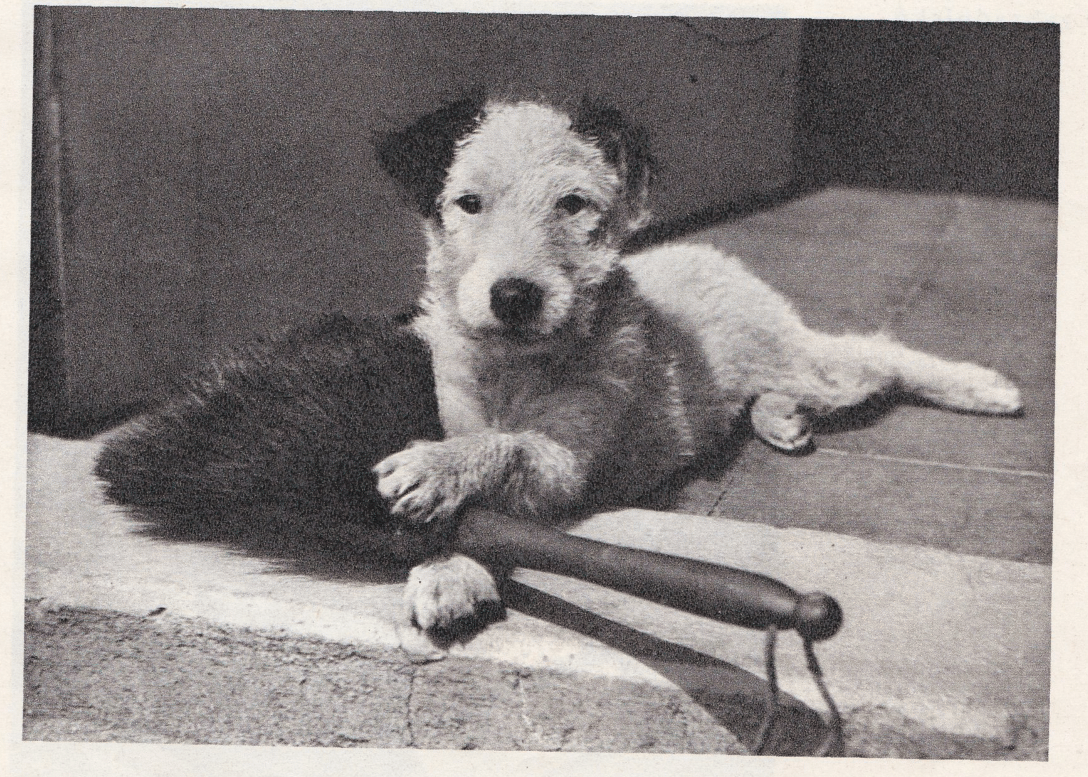 A photograph by Karel Čapek from the book "Dášeňka"